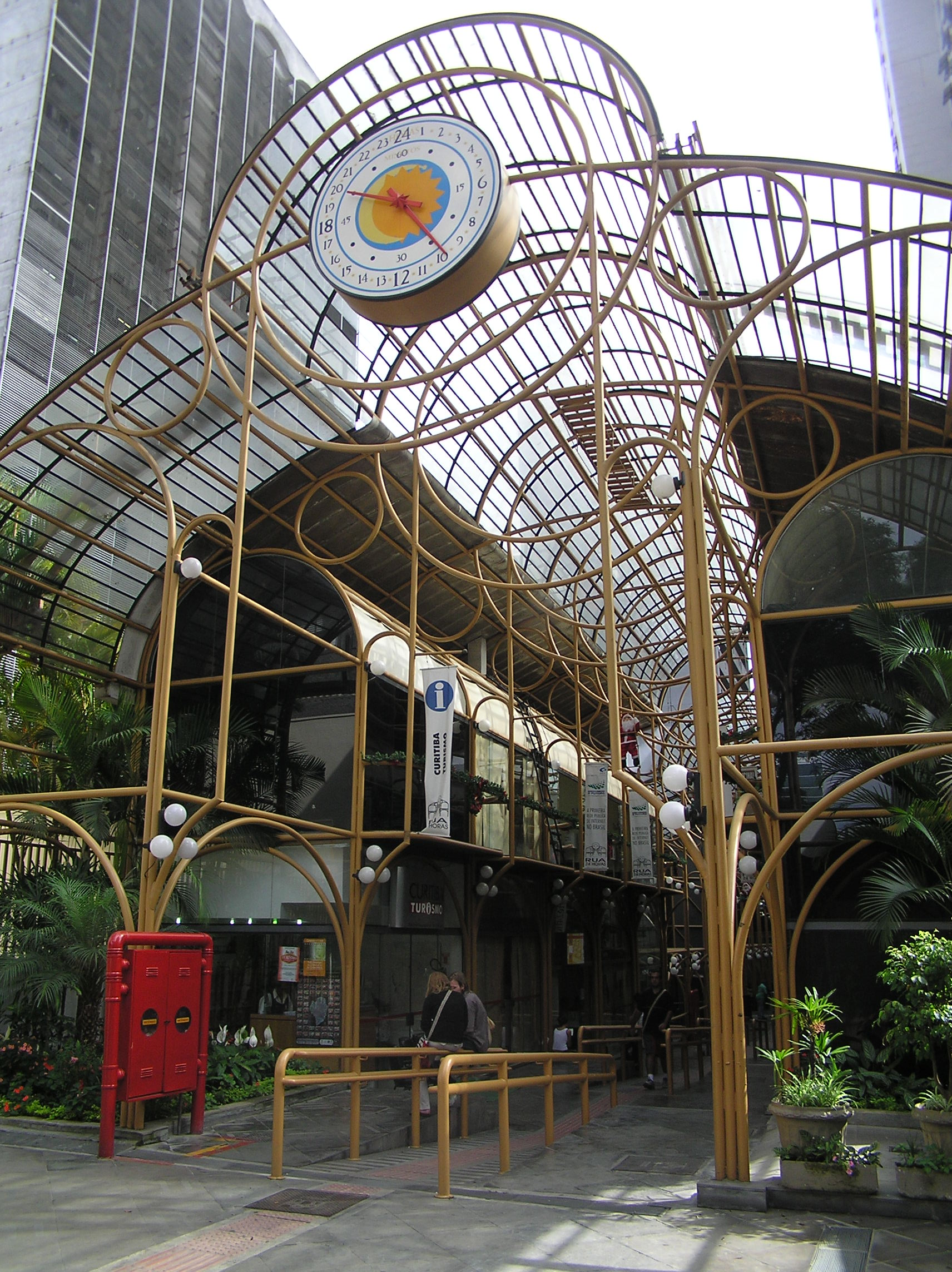 Rua 24 horas (24 hour street)